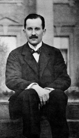 Major The Hon. William George Sydney Cadogan MVO (1879–1914), taken prior to his death (aged 35) in France in November 1914. Major Cadogan was the fifth son of the 5th Earl Cadogan.